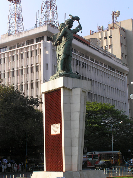 EN-Hutatma Chowk,Mumbai MR-हुतात्मा चौक,मुंबई Author-Enygmatic Halycon (Flickr) Creative commons license v2.0